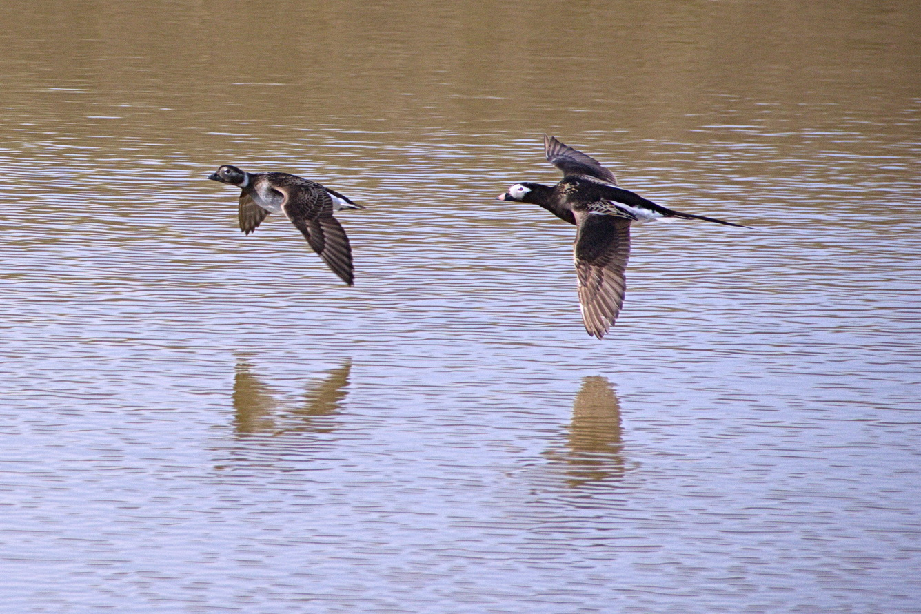 Male and female long-tailed duck (Clangula hyemalis) in flight.